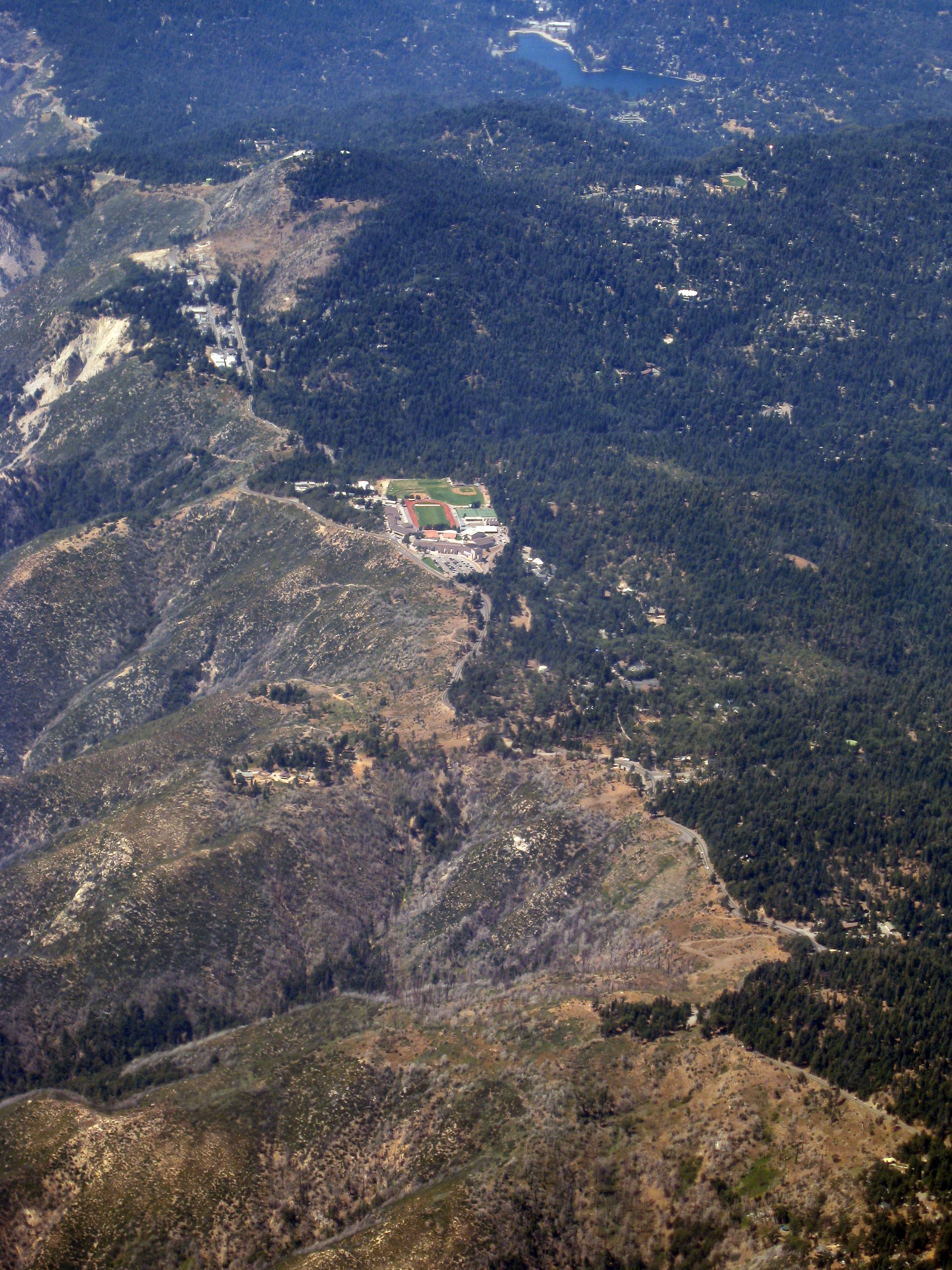 Rim of the World Highway runs along the ridge here in the San Bernardino Mountains. Also known as Highway 18, it marks the boundary between the area burned by fires in 2006 and those not. Rim of the World High School is there as well.